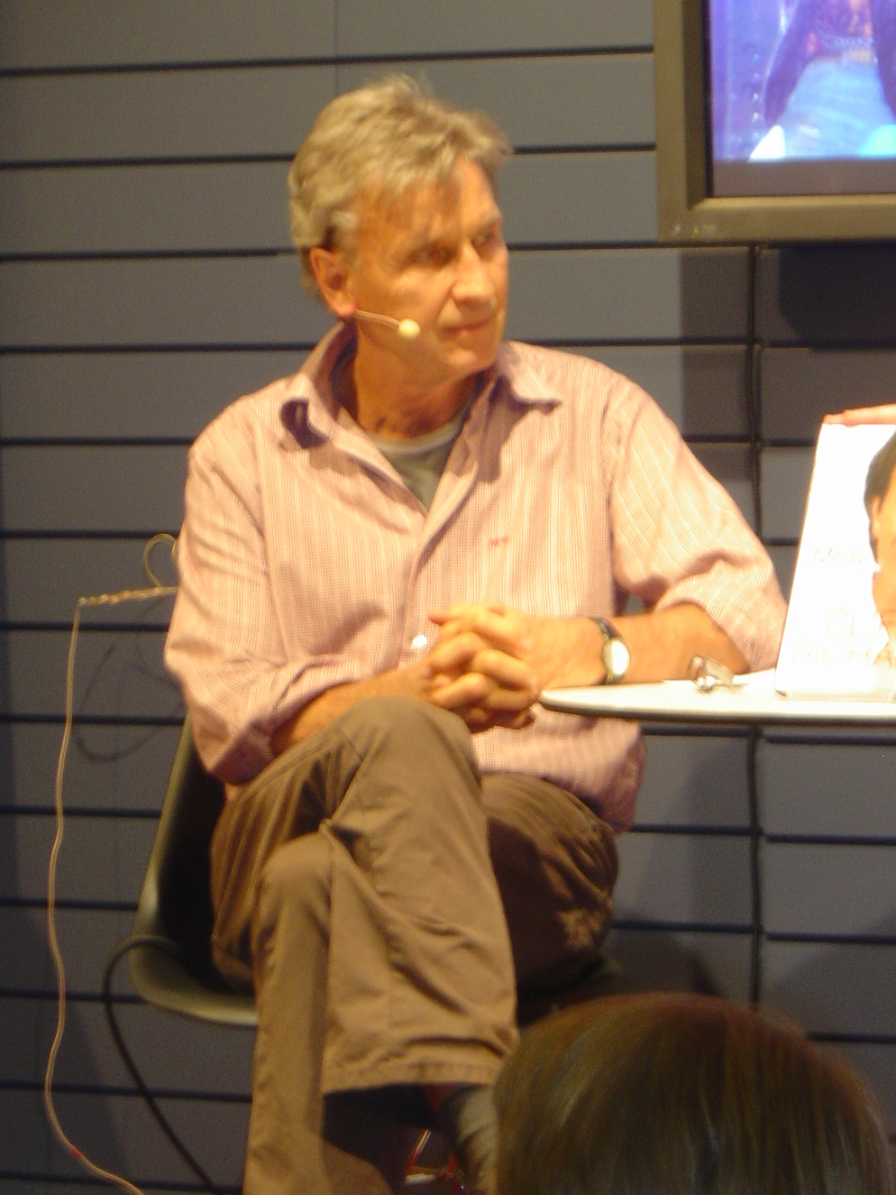 Jørgen de Mylius - a Danish talkshow, television and radio host talks about singer Cliff Richard's 2008 autobiography, called My Life, on 14 November 2008 at the yearly Danish book fair, BogForum (November 14-16, 2008), in Forum Copenhagen.